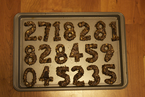 digits of e in chocolate